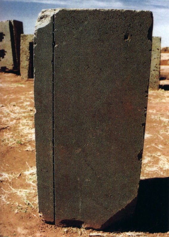 Pumapunku